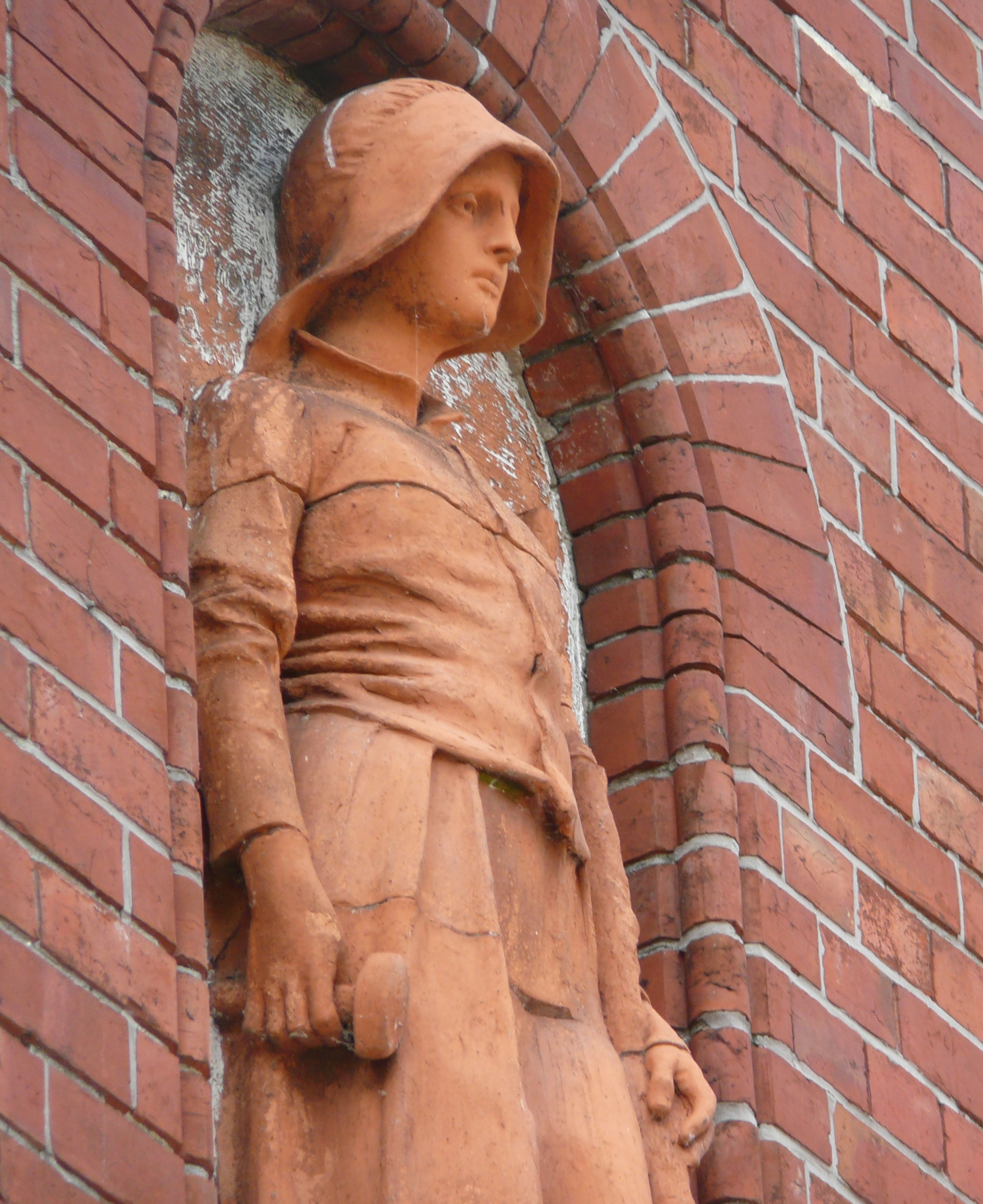 Detail of a statue of Industry, on the former Council Municipal Chambers, now the Our City O-Tautahi building, in Christchurch, New Zealand. This terracotta sculpture, and another next to it of 'Concord', were created by George Frampton (later Sir), famous for his statue of Peter Pan in Kensington Gardens in London, and were purchased by the council after being shown in an international exhibition in Christchurch in 1882.